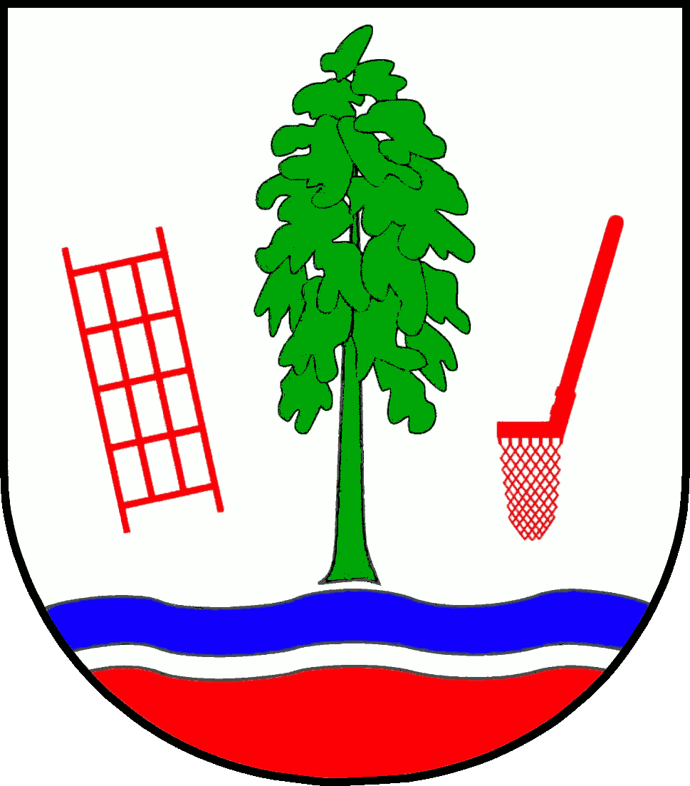 Coat of arms of the municipality Krempermoor in Schleswig-Holstein, Germany.